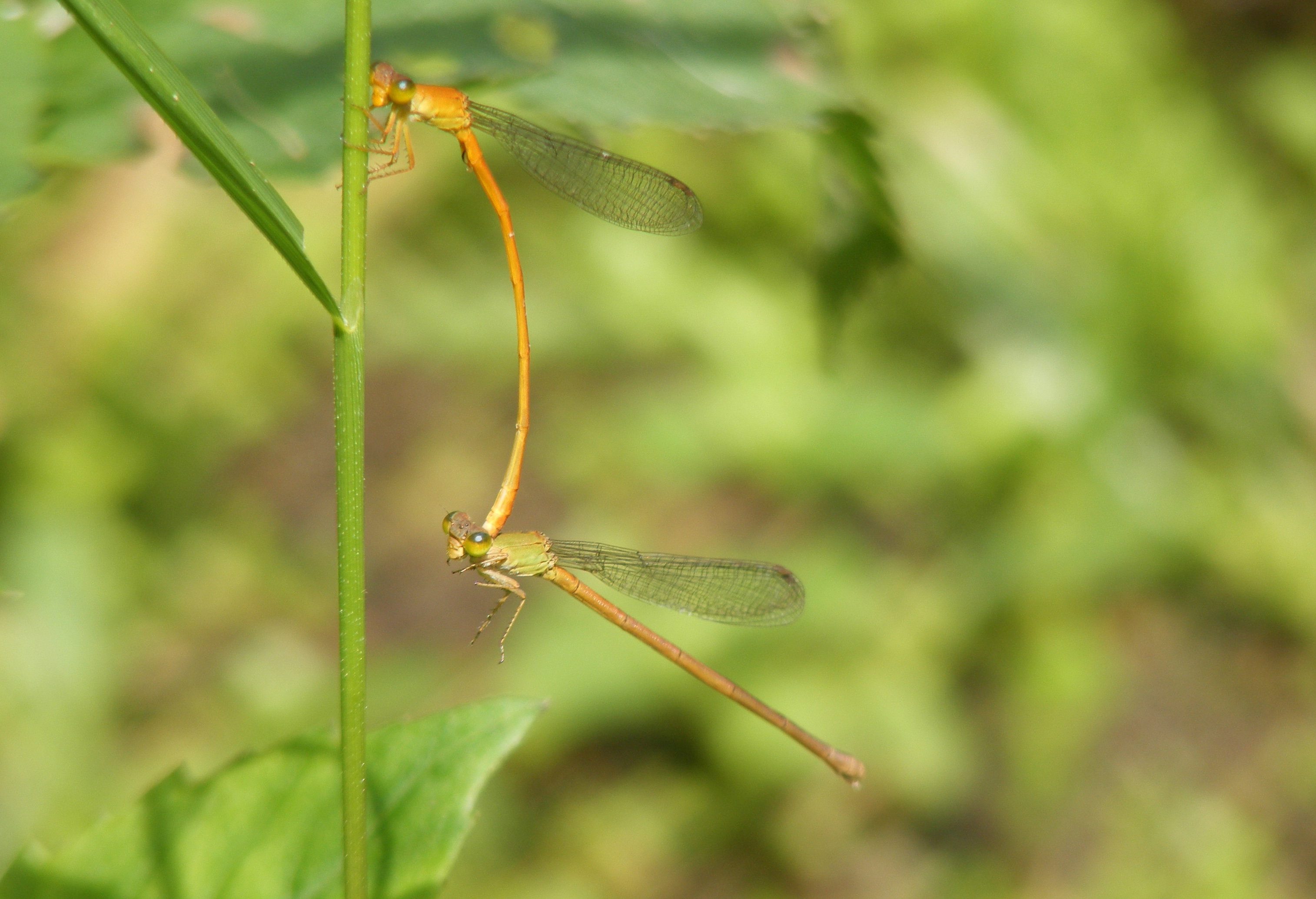 Ceriagrion rubiae in tandem from Thekkady, Kerala